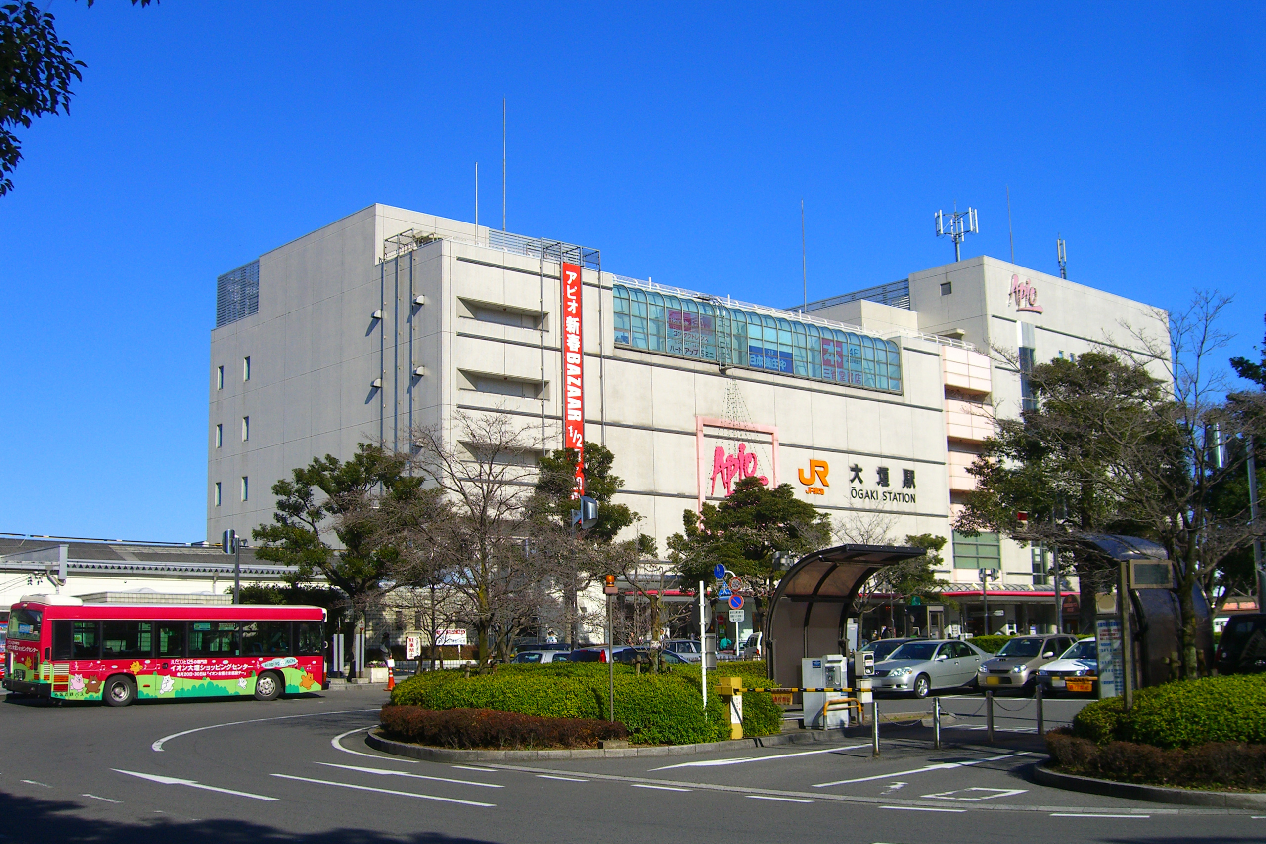 Central Japan Railway Tokaido Line and Tarumi Railway Ogaki Station South Gate.